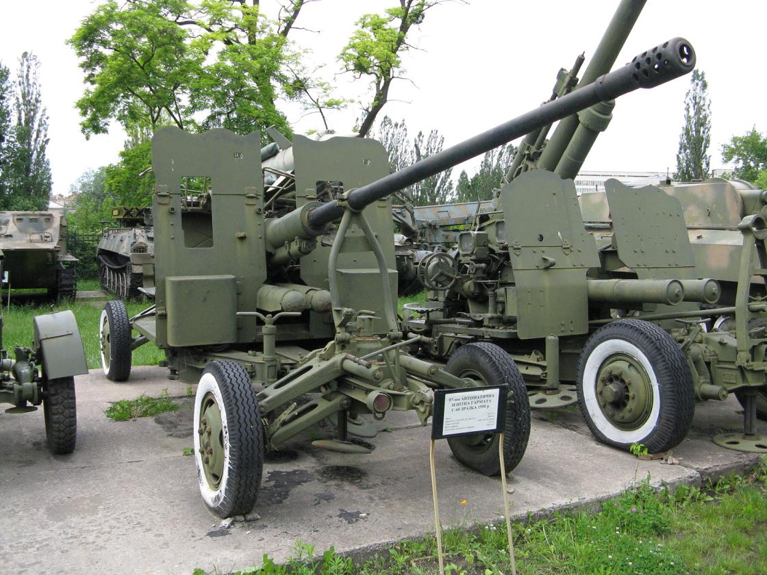 С-60, Lutsk, Volynskiy regional museum of Ukrainian army